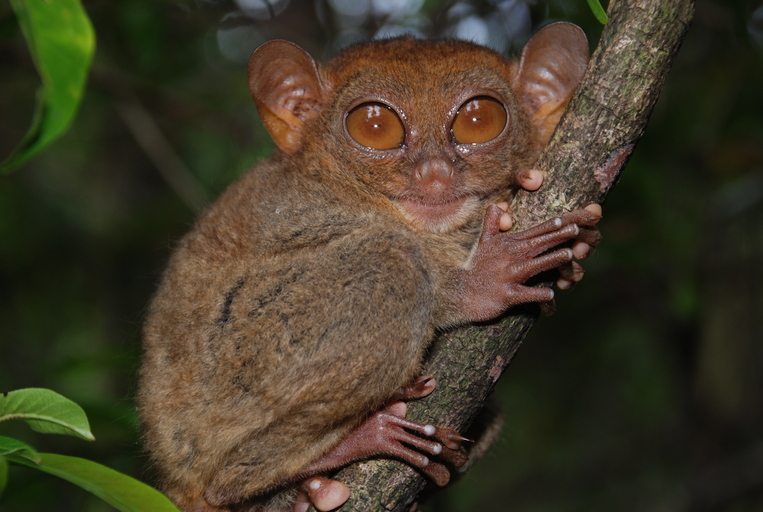 Carlito syrichta